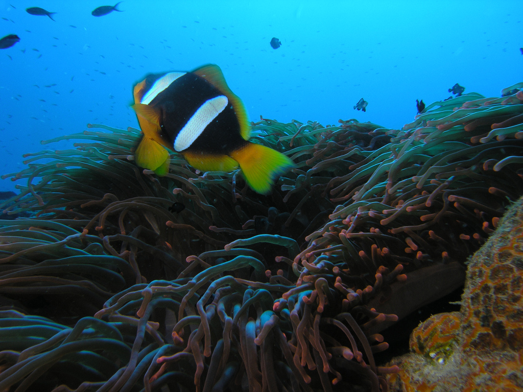 Madagascar anemonefish (Mohéli, Comoros) showing the distinctive forked caudal fin & wide midbody bar